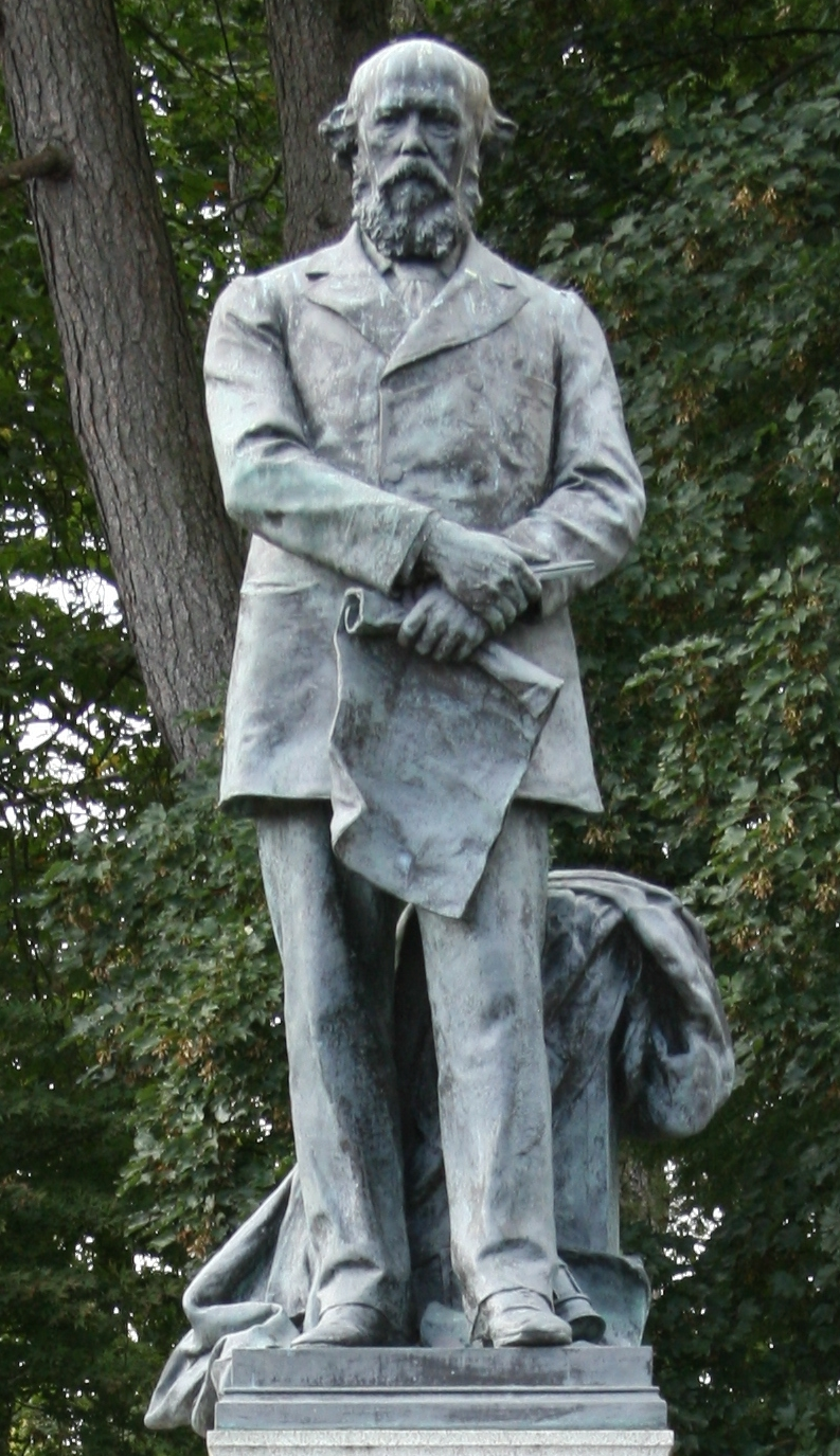 Lord Merthyr sculpture at Aberdare Park by Thomas Brock, photo by Darren Wyn Rees at Aberdare Blog